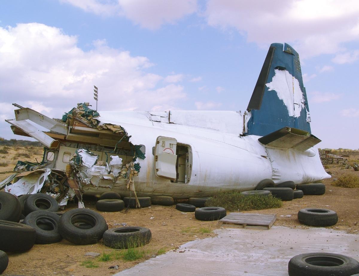 Remnants of the tragic crash